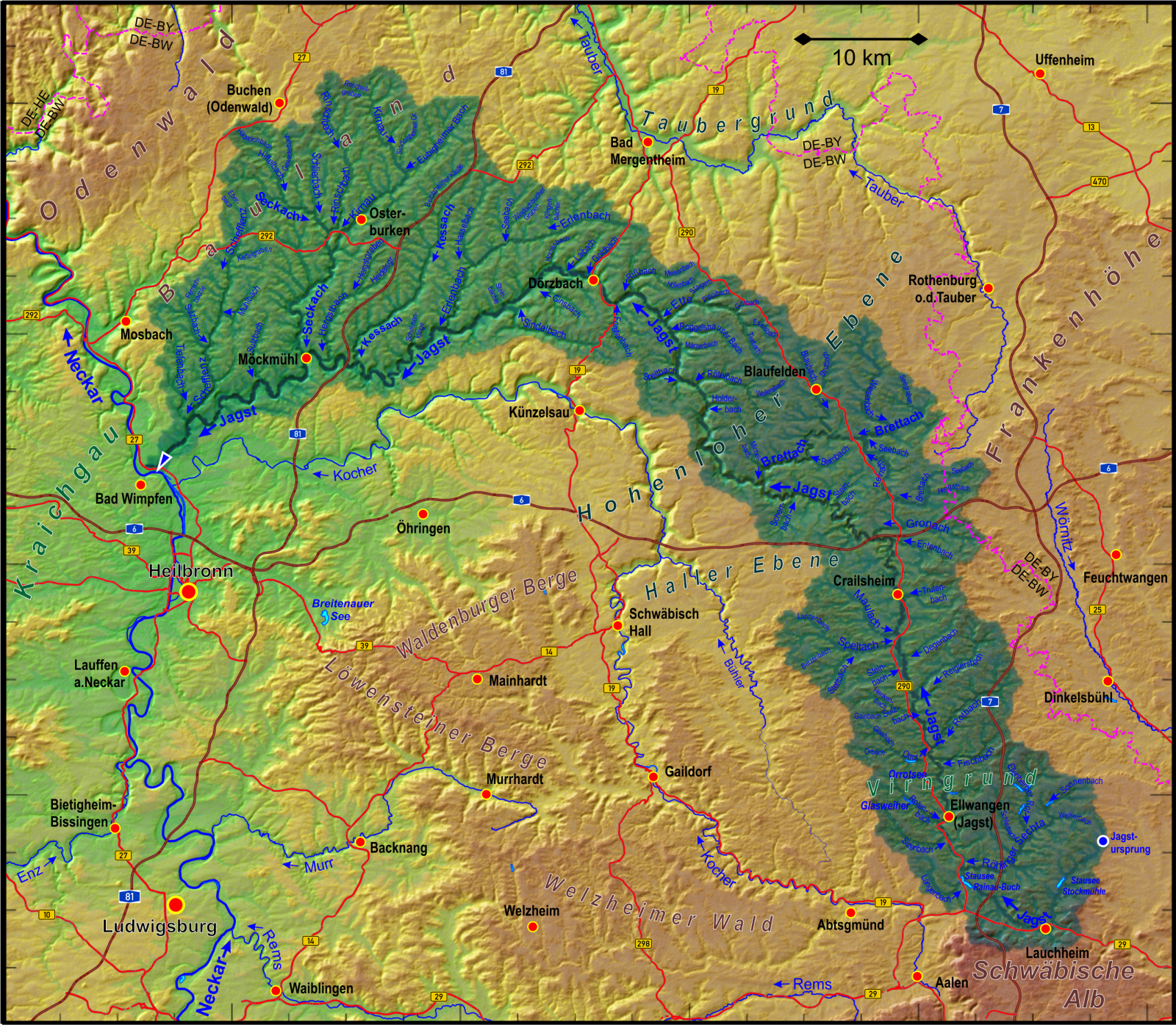 Catchment area of the river Jagst